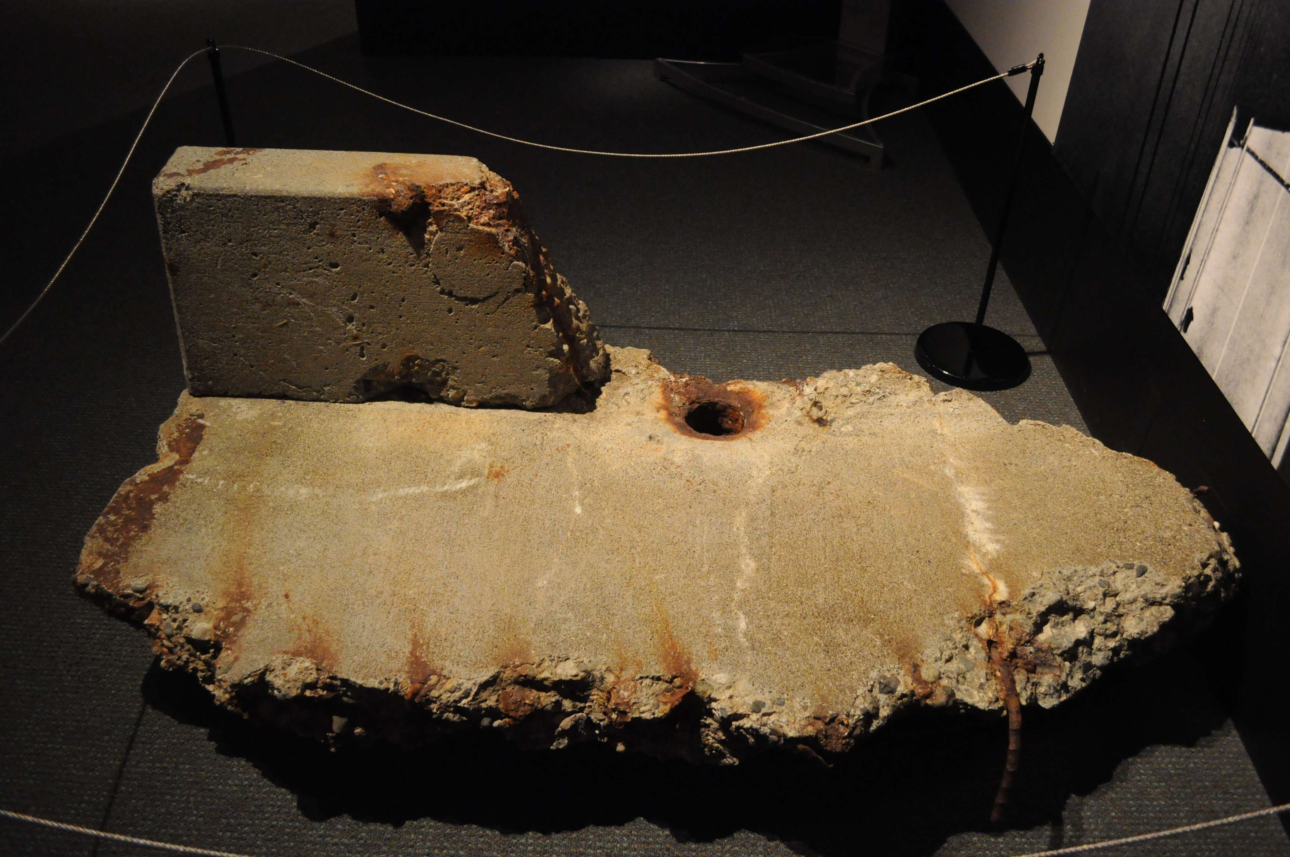 A fragment of "Galloping Gertie," the first Tacoma Narrows Bridge. Washington State History Museum item 2007.42.1.